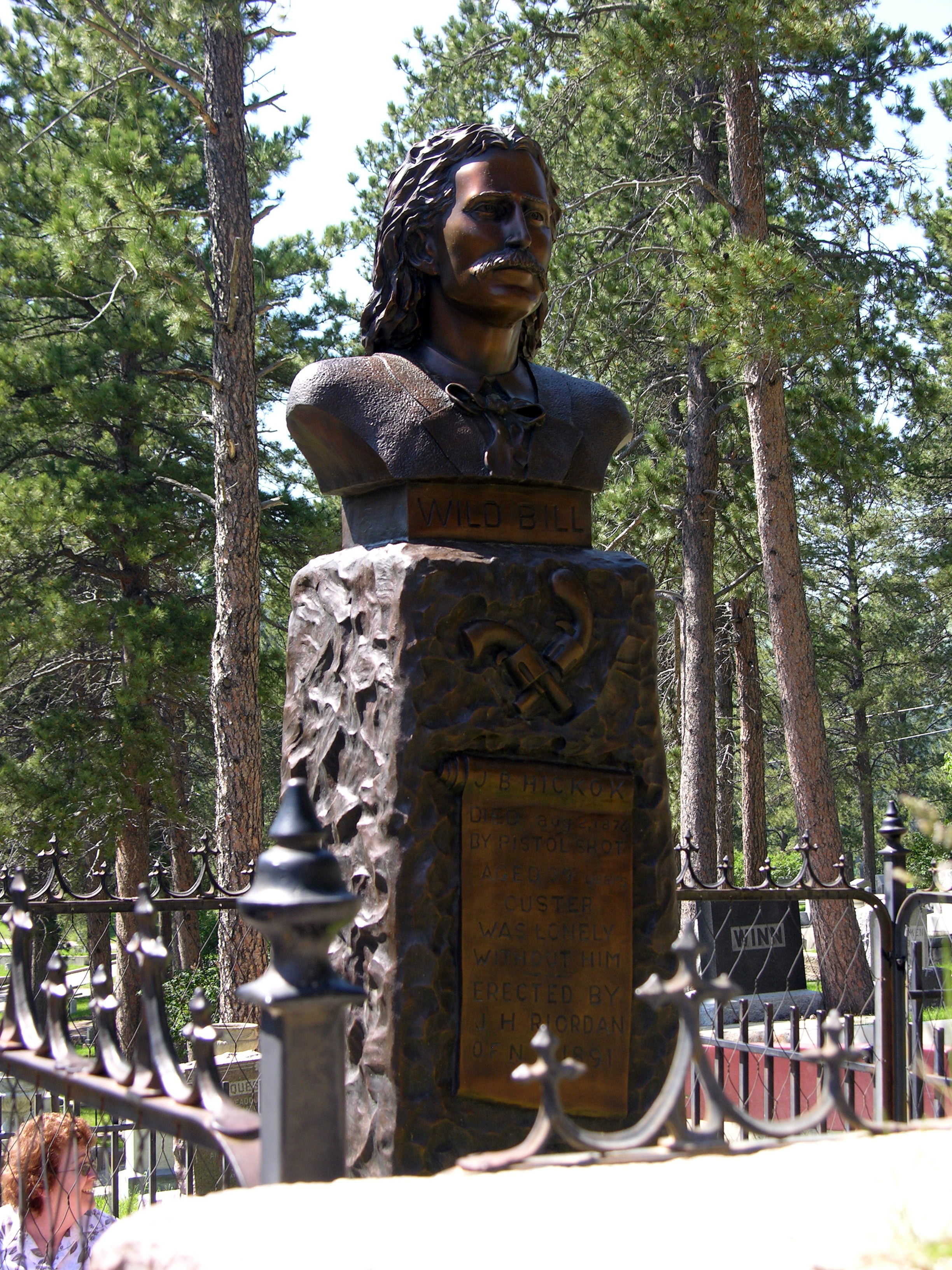 Tumbstone of Wild Bill na cmentarzu Mt. Moriah